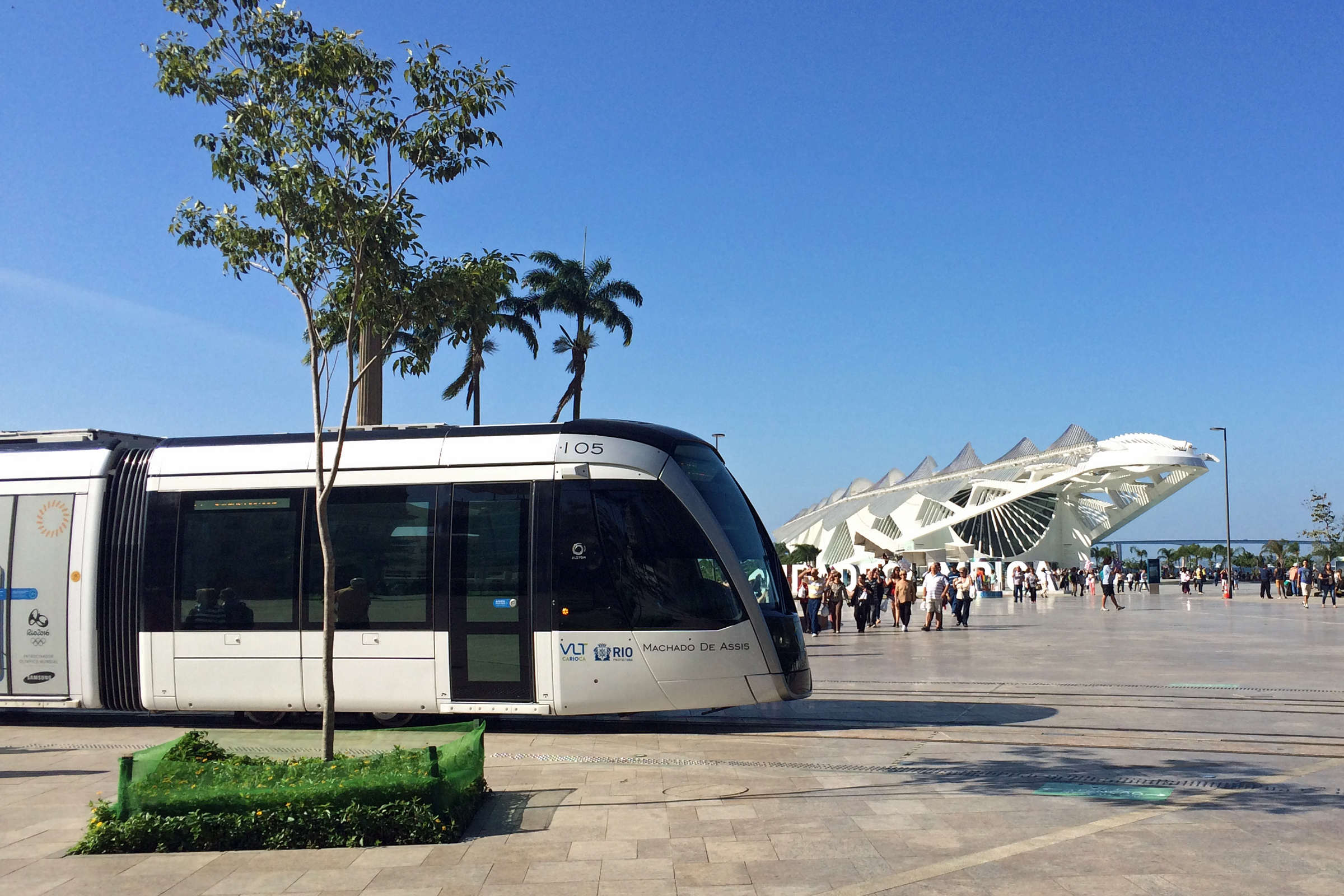 LRT Carioca, Rio de Janeiro. Tram at Praça Mauá.